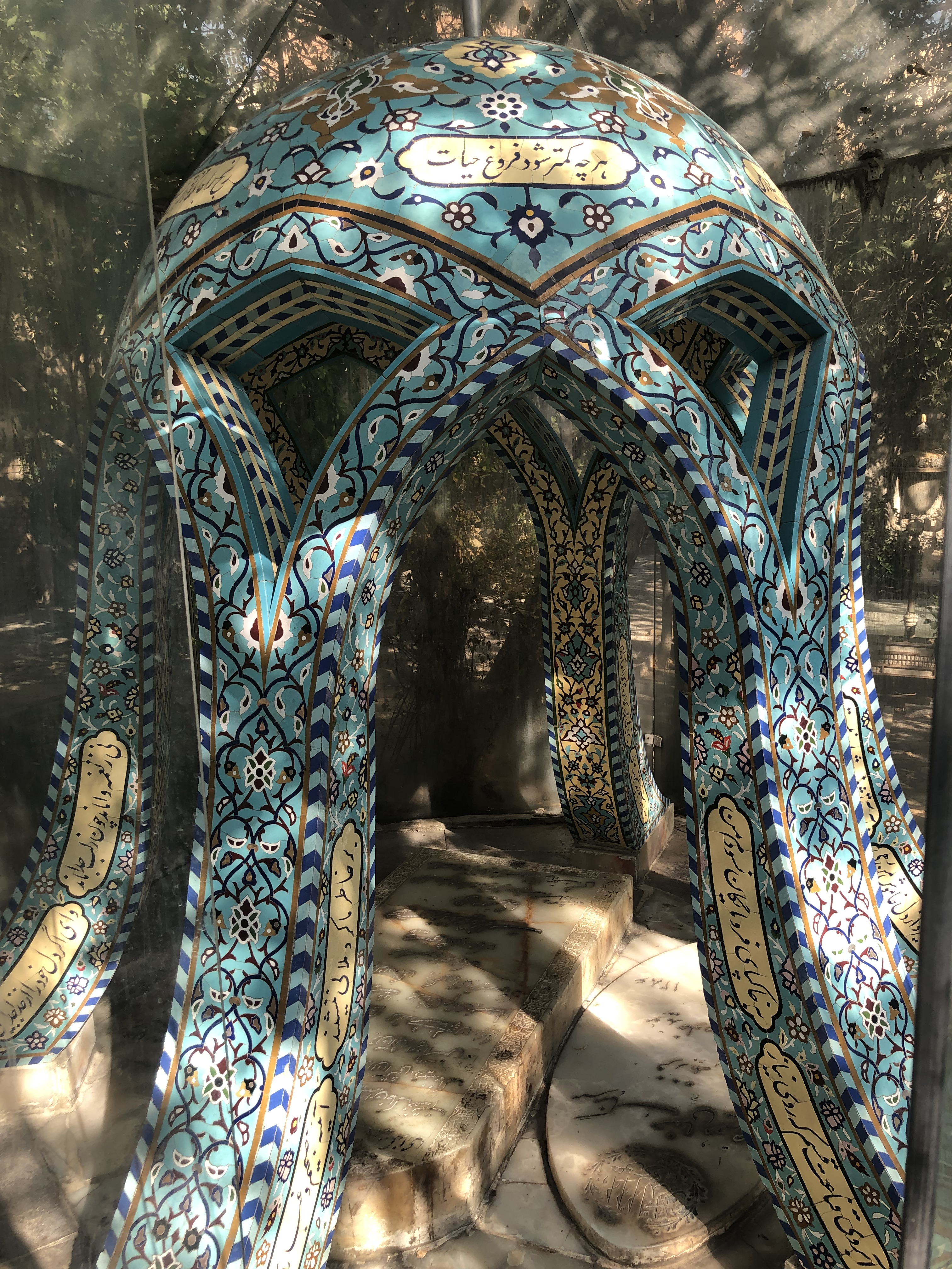 Zahir-od-Dowleh Cemetery